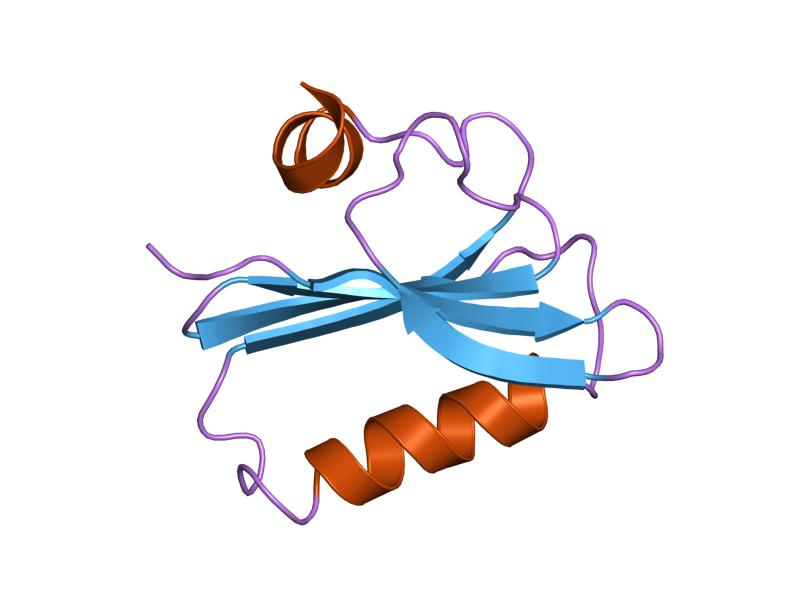 Cartoon representation of the molecular structure of protein registered with 1svr code.